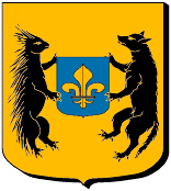 Arm of Blois